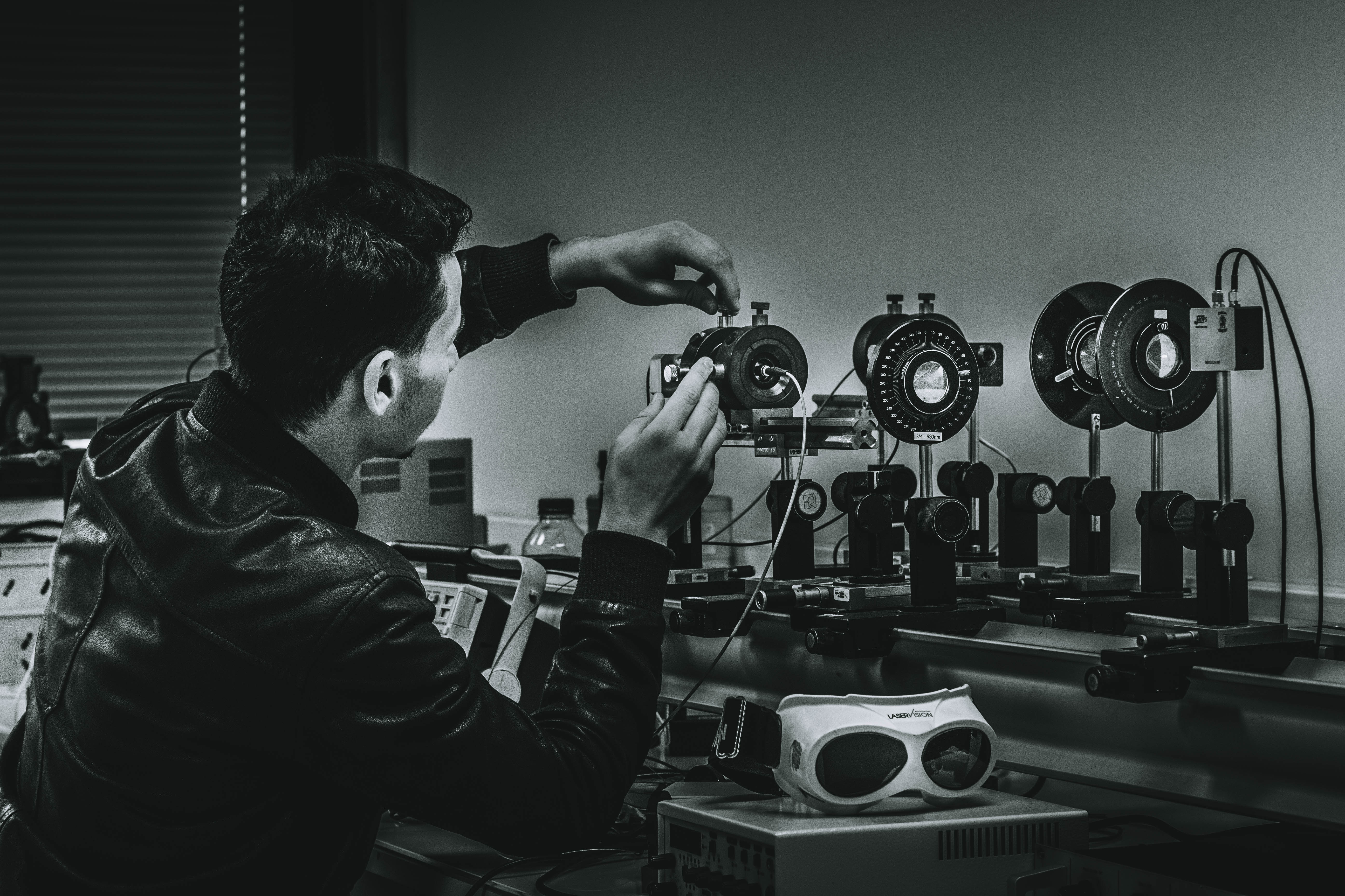 For a period of five weeks, we worked on an experimental project based on the Pockel's effect, which is an electro-optical effect that allows optical modulation thanks to the physical phenomenon of birefringence present in certain materials and allows the external modulation of the intensity, phase or polarization of a light wave. Indeed, it is the appearance of a birefringence in a medium created by a static or variable electric field. The latter is proportional to the electric field. This effect has direct applications in everyday life, especially in the transmission of information by optical fibers that we carried out at the very end of our work